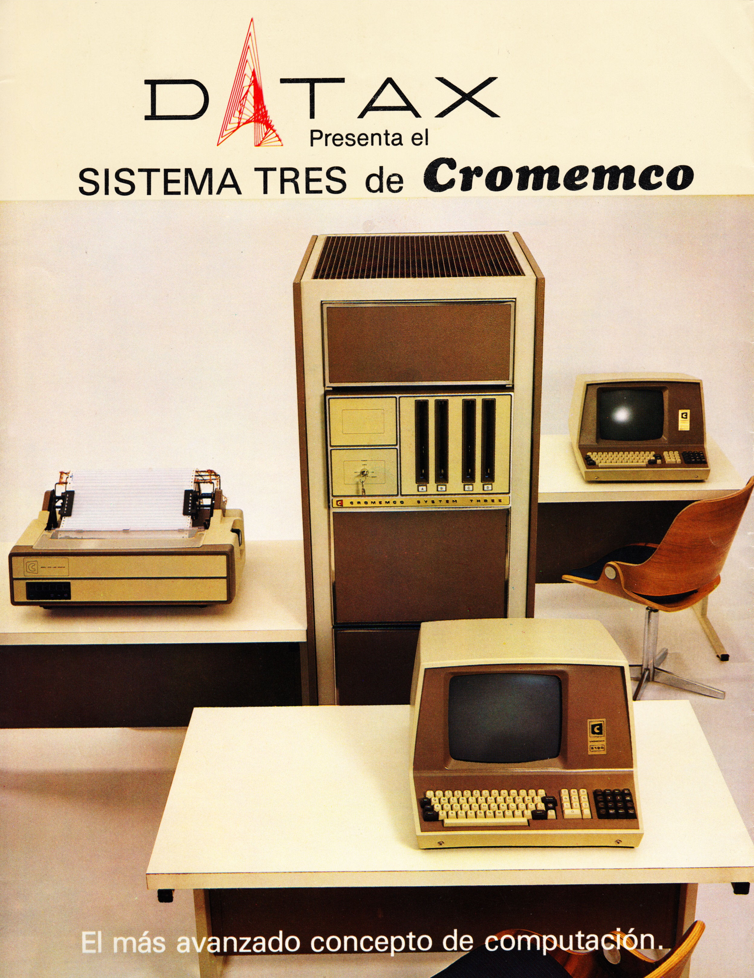 Cromemco Sistema Tres – publicidad de Datax de México (1980)